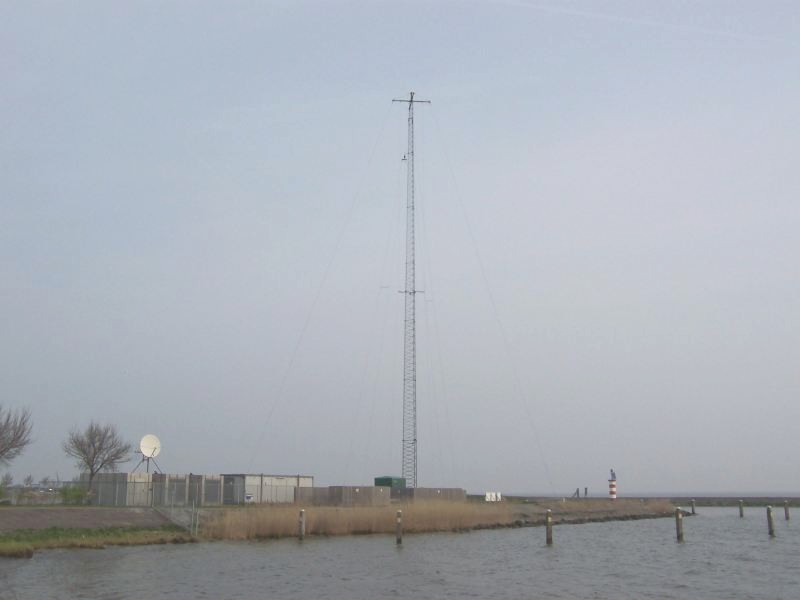 Big L radio mast in Trintelhaven.